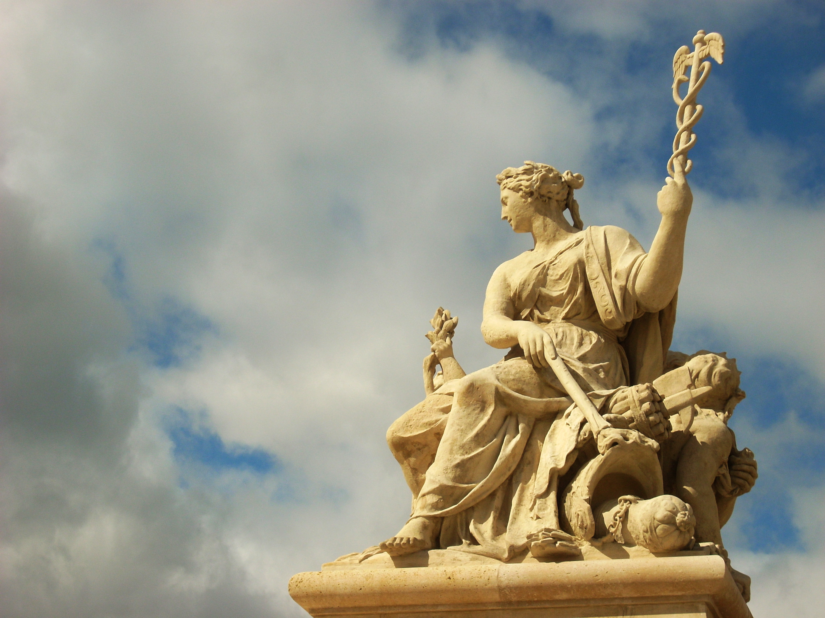 Allegorical sculpture at the entrance to the Palace of Versailles